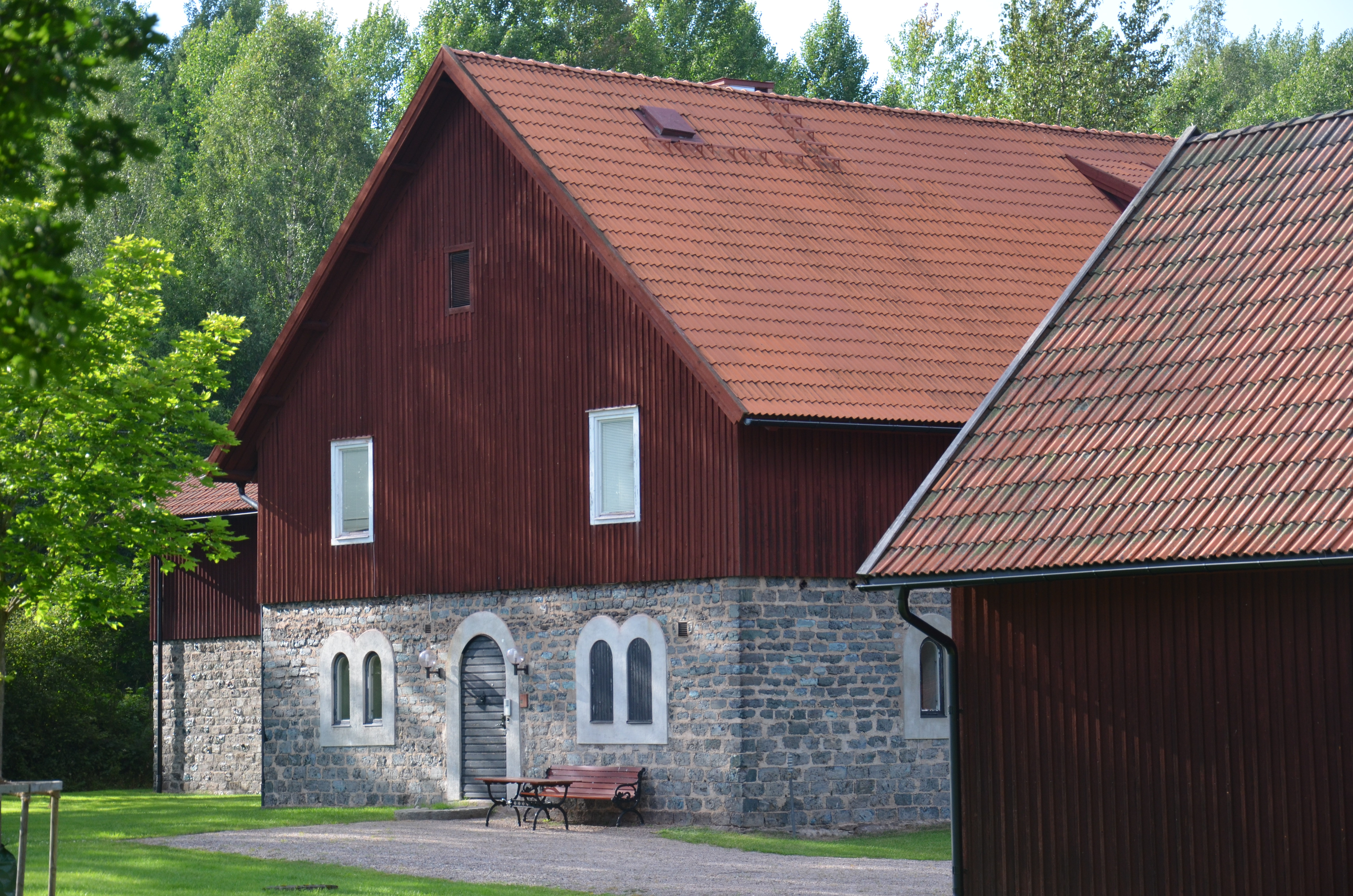 Engelsbergs bruk. Ax:son Johnsongruppens arkiv, tidigare ladugården